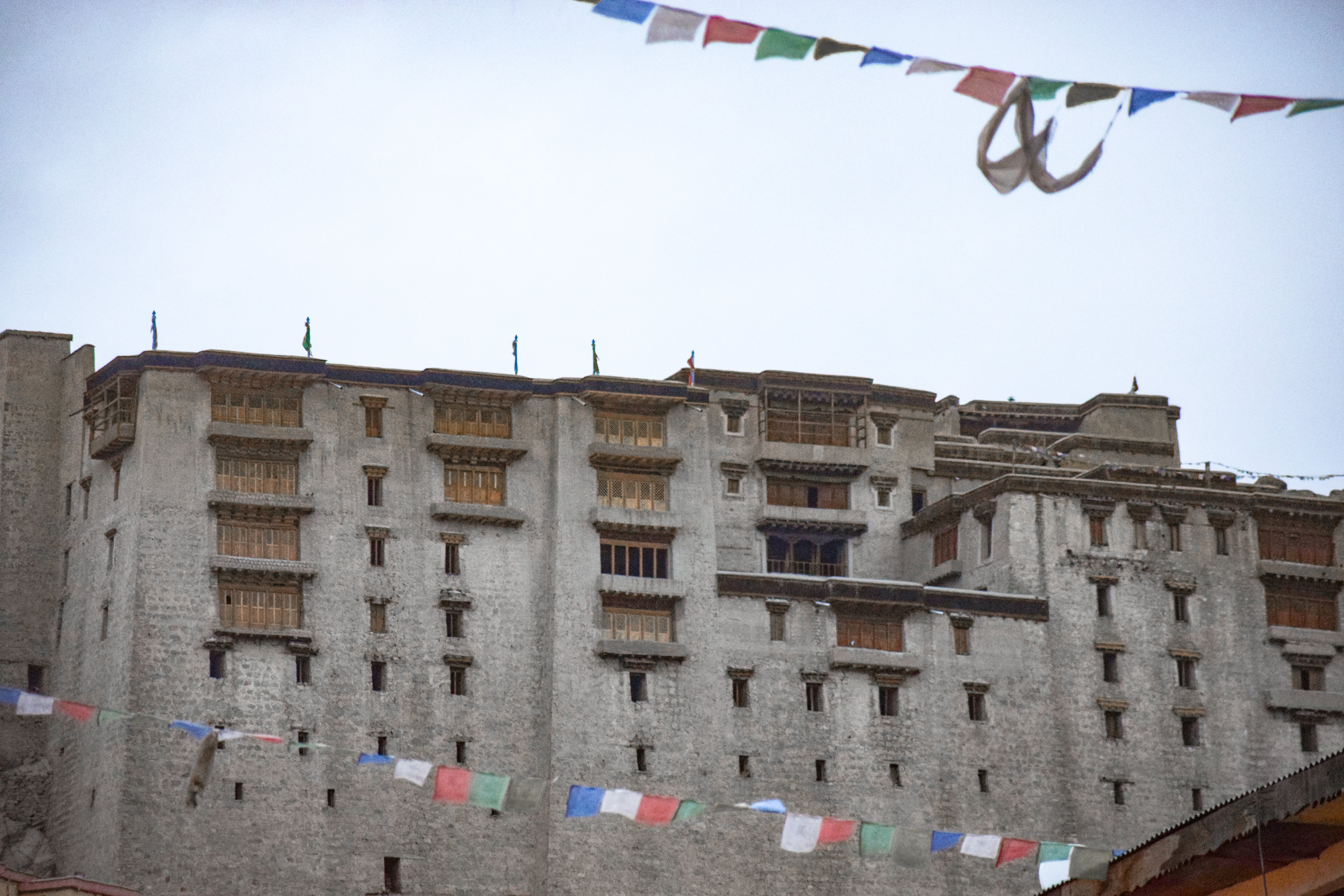 leh palace captured from leh market.